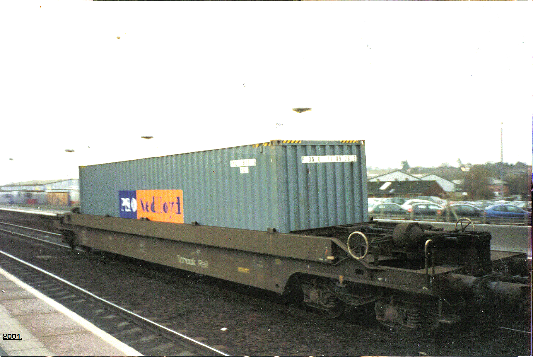 I took the picture of this P&O Nedlloyd intermodal freight freight well car my self at Banbury station in the year 2001. I here by release it in to the public domain.